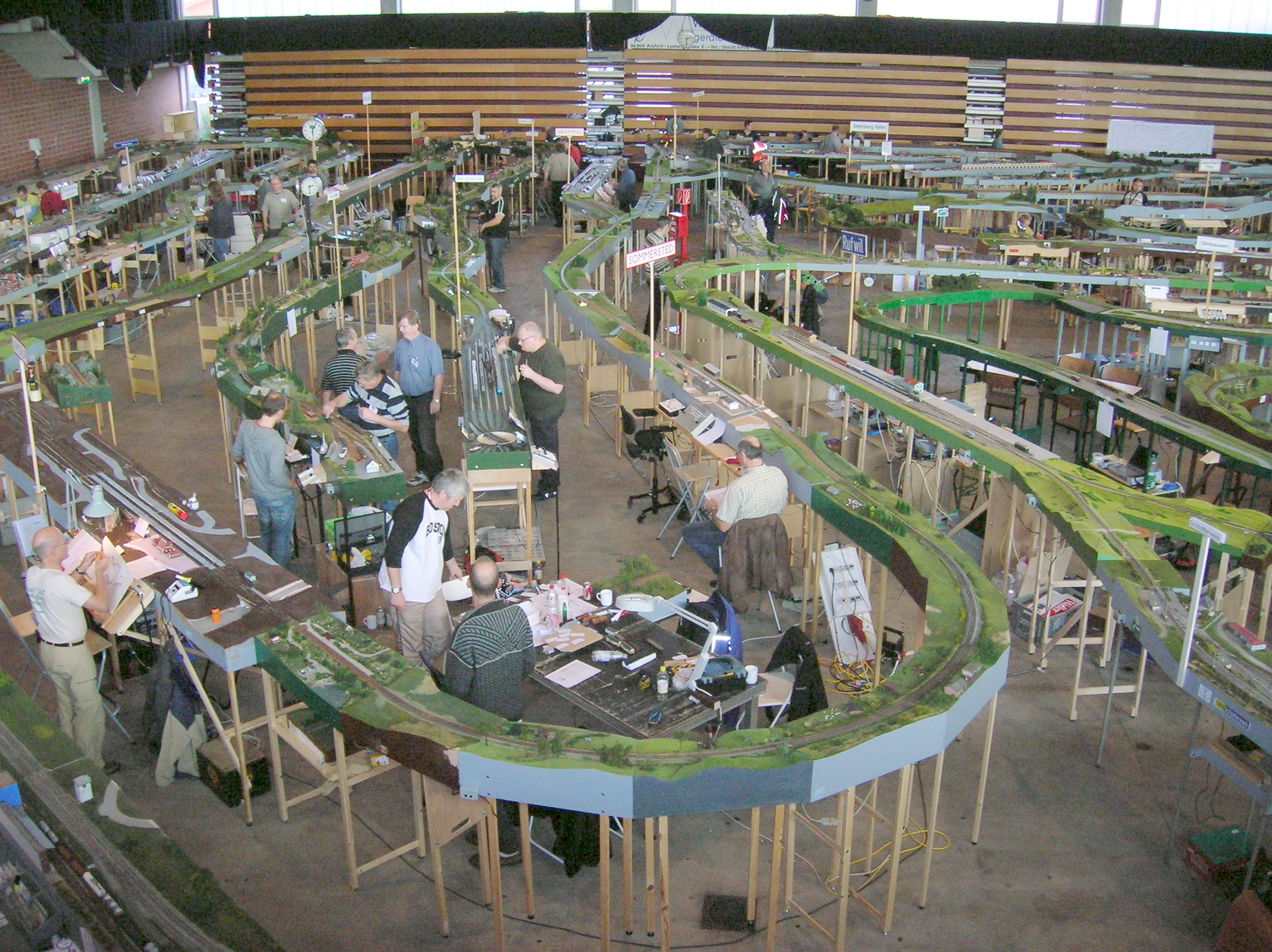 meeting 25 jears anniversary 04.-08.10.2006 in